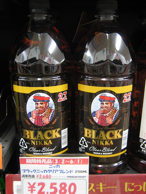 Bottles of Black Nikka Whisky for sale at a Yamaya liquor store in Fukushima city, Japan. Image was taken with a Canon PowerShot SD450 Digital Elph camera. Image file extension was changed using a Paint Shop program on a laptop computer.